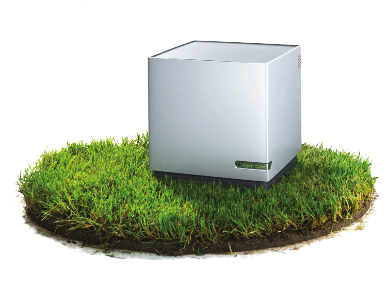 Silent Cube energy-saving WORM archival storage unit